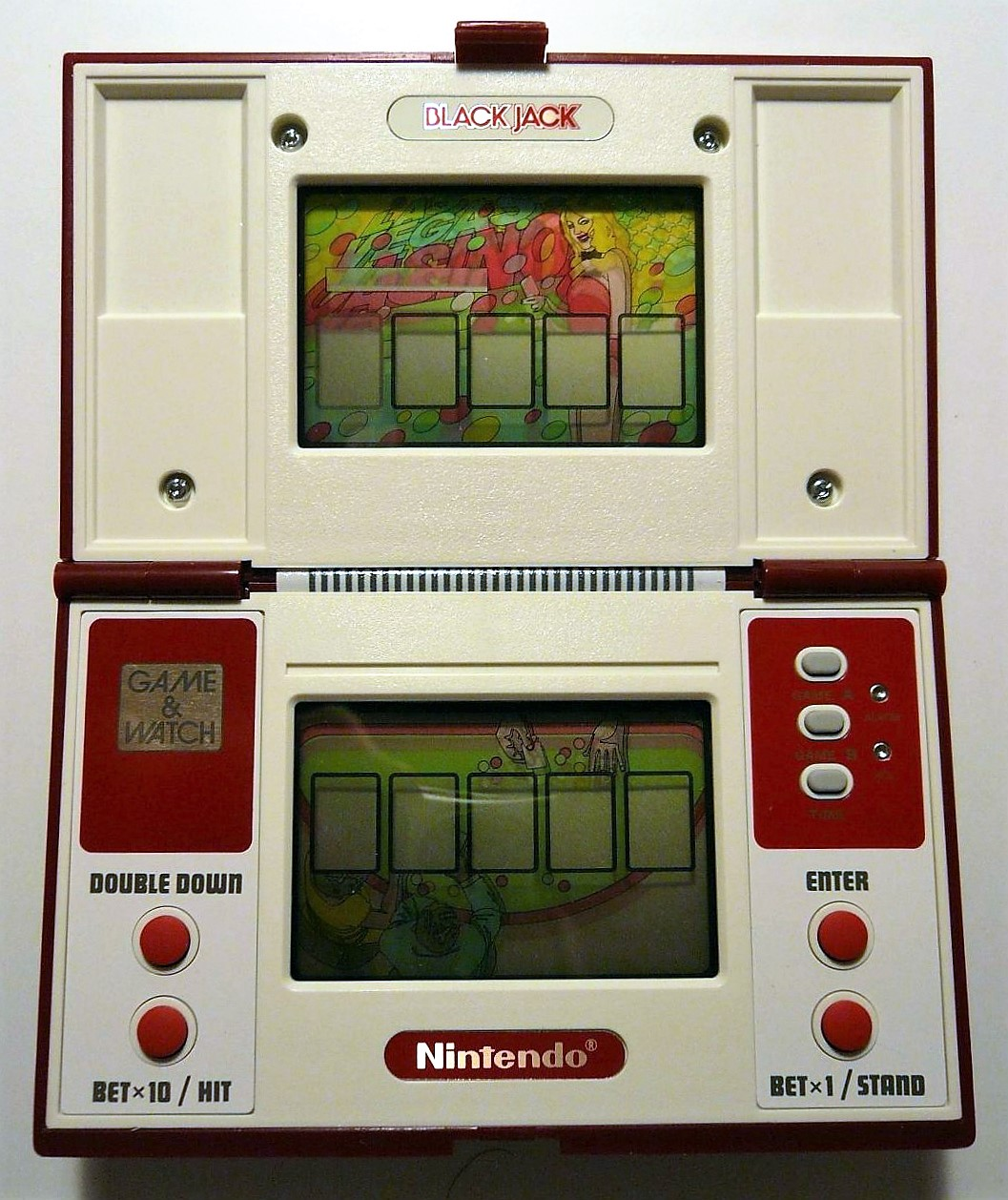 Black Jack - Game&Watch - Nintendo